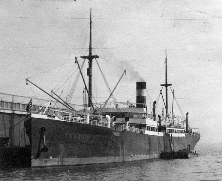 US Navy cargo ship USS Casco (ID-1957), probably photographed ca. 8 November 1917, the date she was inspected for possible U.S. Navy service by the 12th Naval District, when we in United States Shipping Board custody as SS Casco.